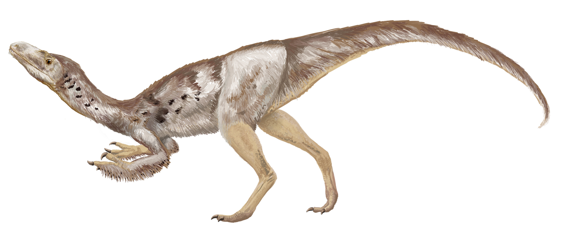 Life restoration of Tanycolagreus topwilsoni. Based on Figure 2.16 of "New small theropod from the Upper Jurassic Morrison Formation of Wyoming" by Kenneth Carpenter, Clifford Miles, and Karen Cloward (The Carnivorous Dinosaurs pp. 23-48, Indiana University Press).